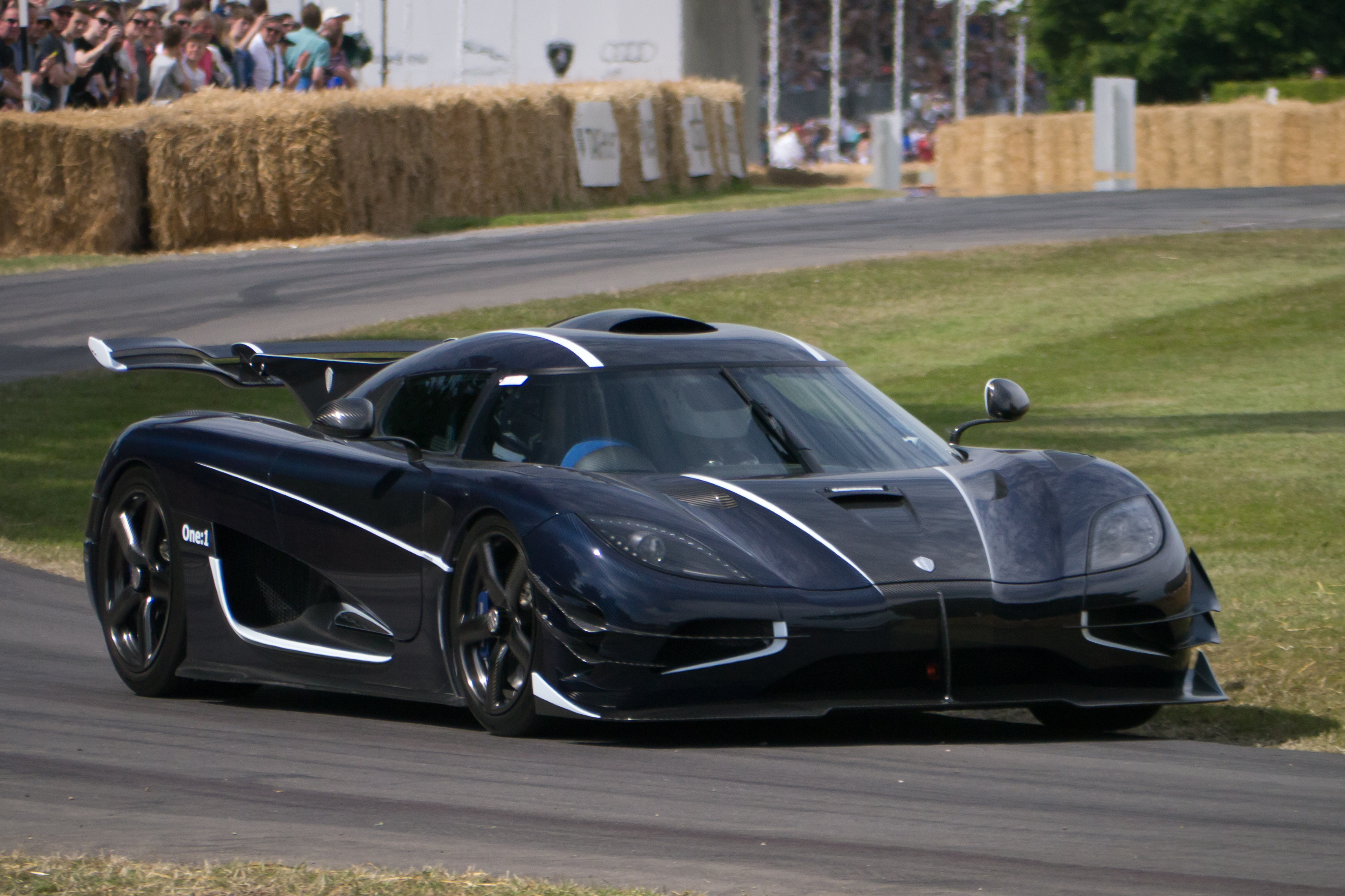 chassis #110